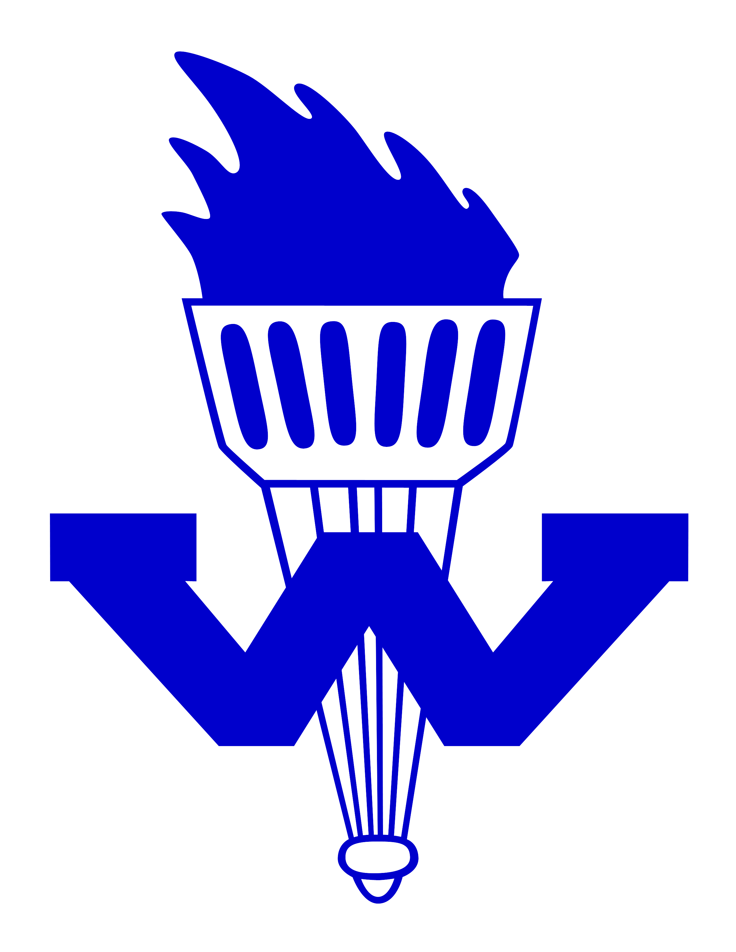 Westbrook Blue Blazes